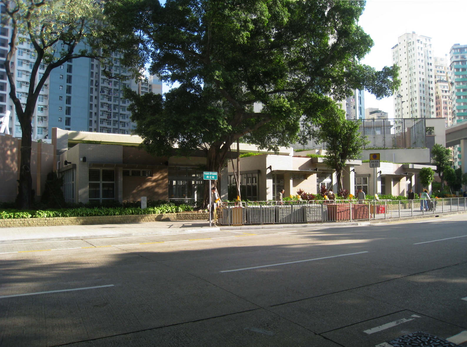 Upper Ngau Tau Kok Estate Intergrated Children & Youth Services Centre 牛頭角上邨